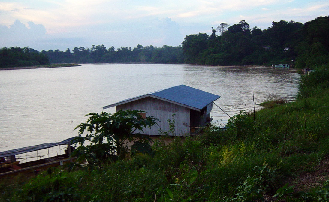 Photograph of the Kelantan river in Kuala Krai taken by me (Euchiasmus) in 2005